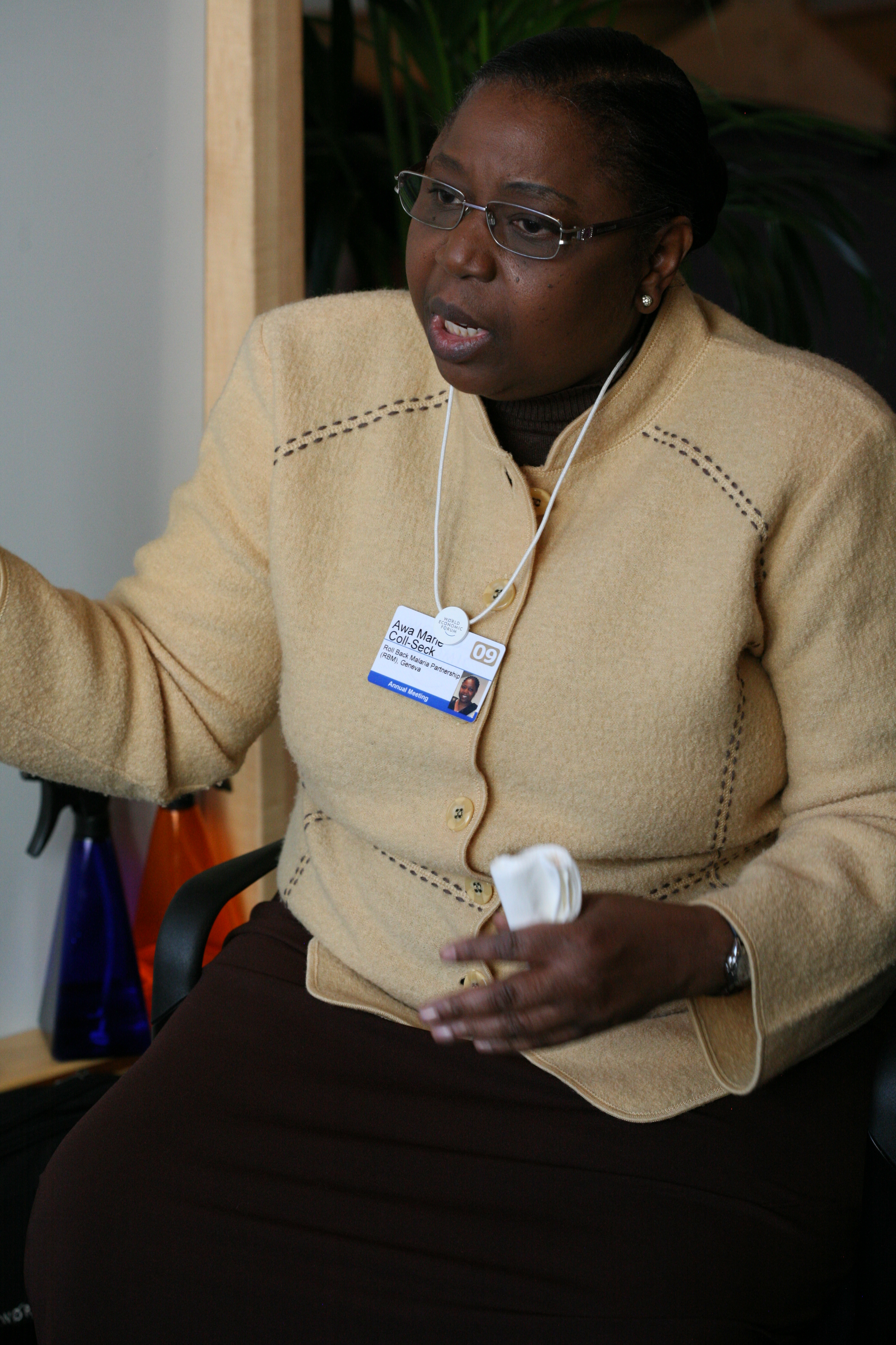 Awa Marie Coll-Seck : Former Minister of Health of the Republic of Senegal and now Roll Back Malaria Partnership Executive Director. (Davos, 2009 World Economic Forum)